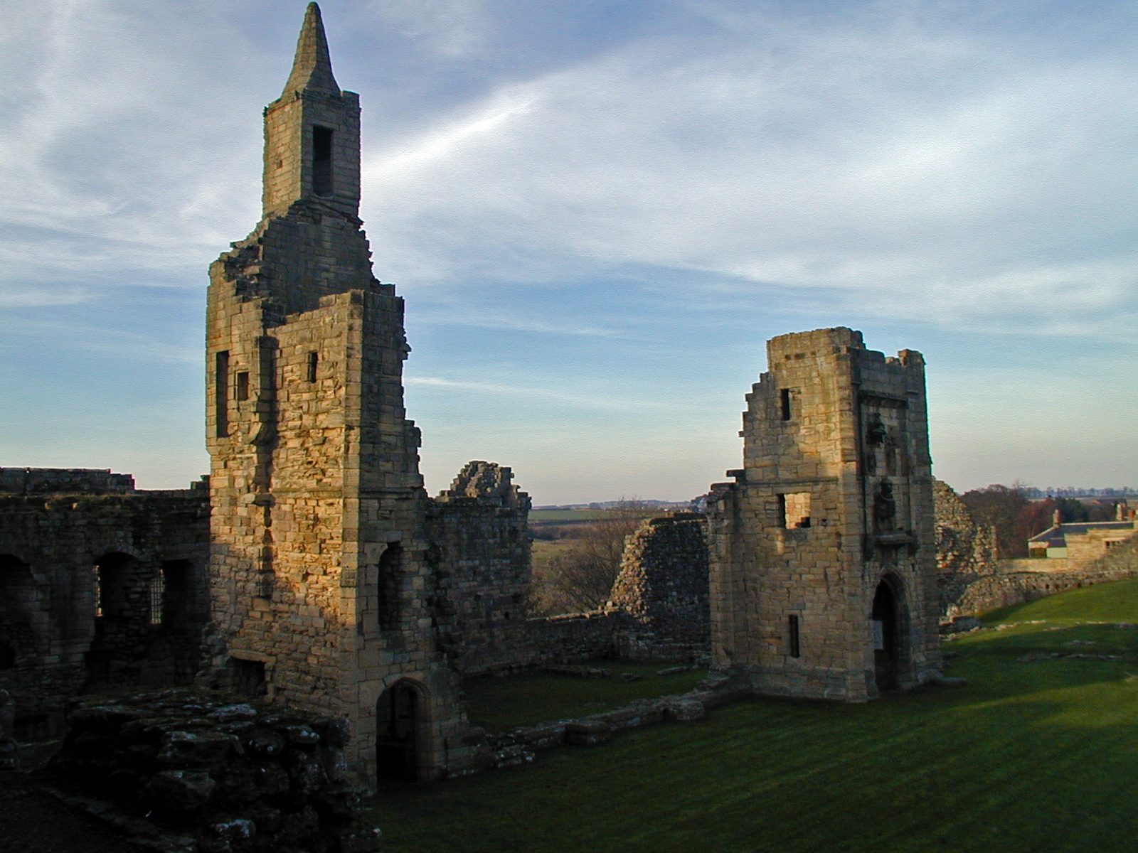 The Lion Tower (right) and Little Stair Tower (left) within Warkworth Castle, Northumberland